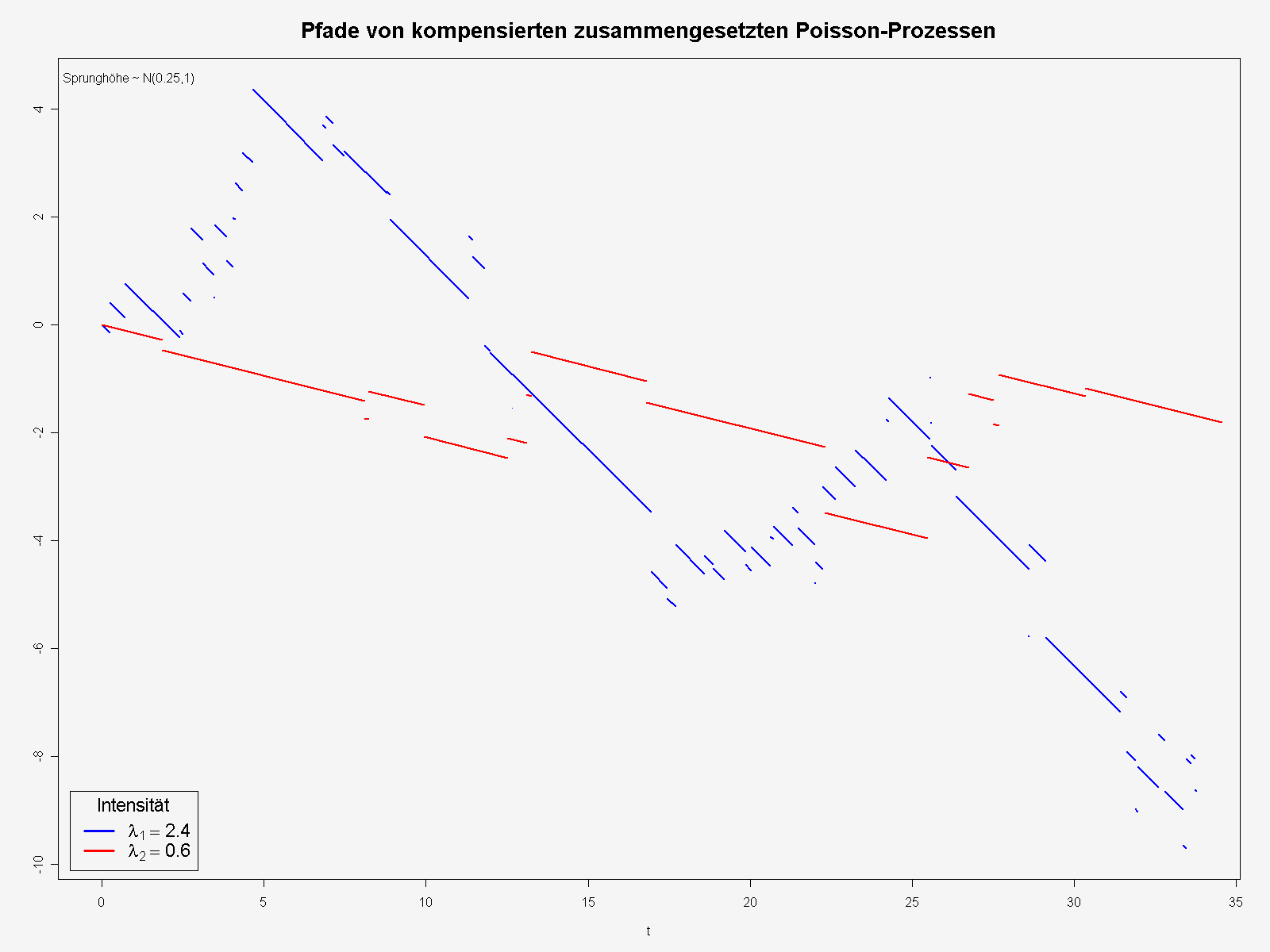 two trajectories of compound (normal) compensated poisson processes. intensities: 2.4 and 0.6, normal distr.: N(0.25,1)